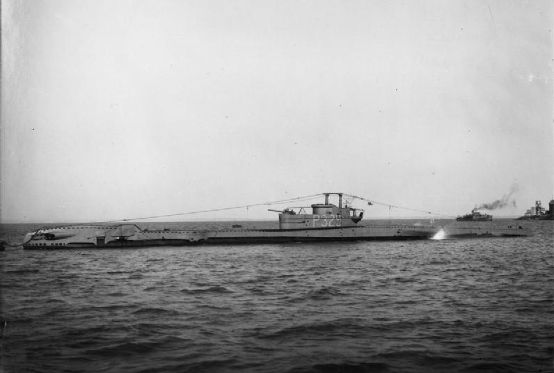 British T class submarine HMSM TRADEWIND at a buoy in the Medway.